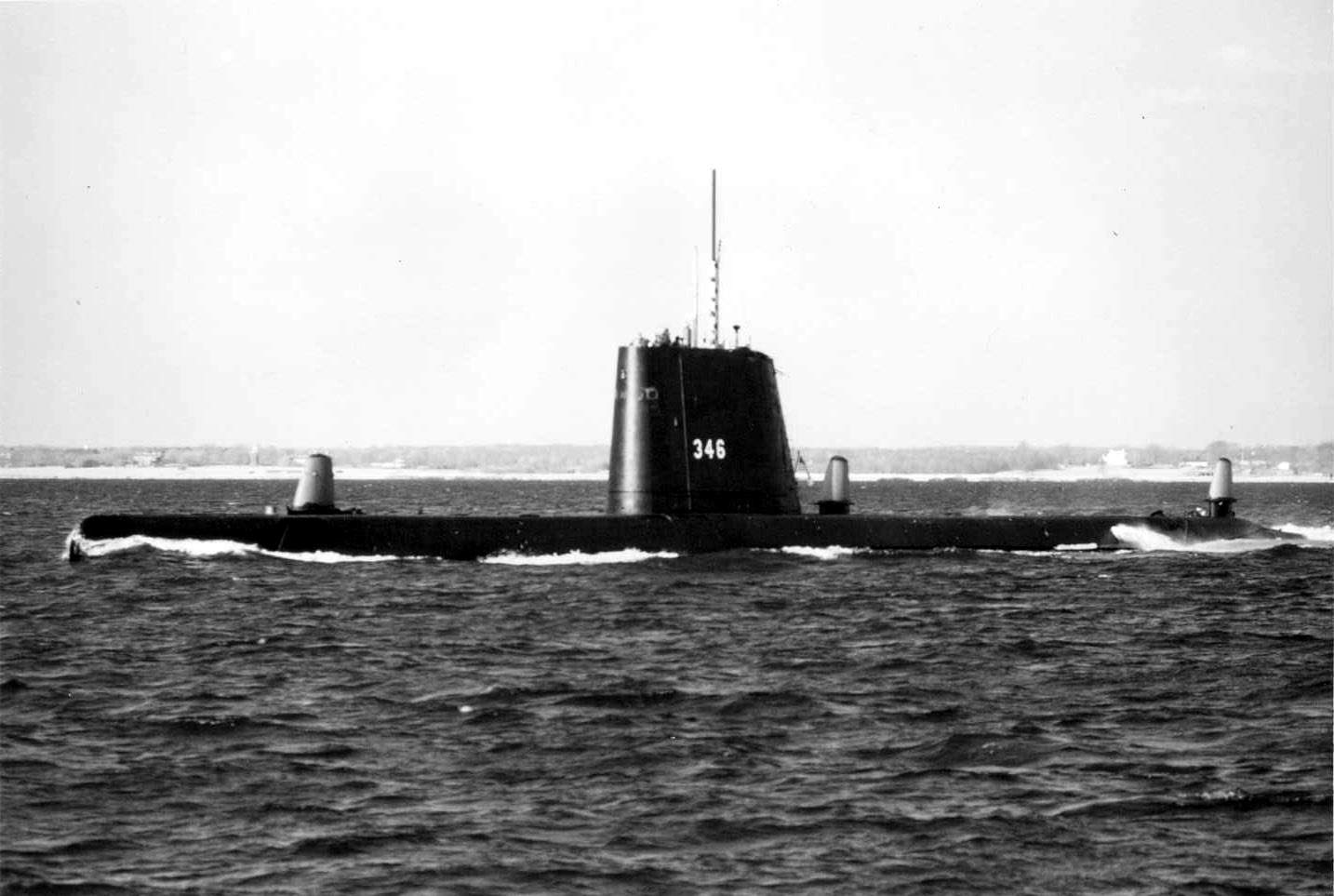 USS_Corporal; Portside view of the Corporal (SS-346) underway, 1969. USN photo courtesy of .